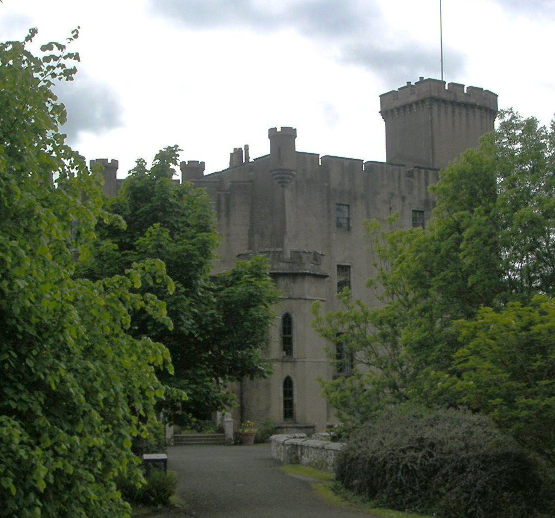 Dunvegan castle, Skye, Scotland Author: Wojsyl, June 2004